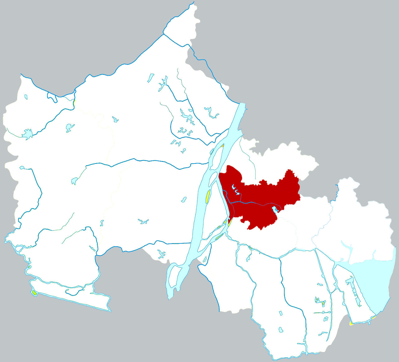 Location of Yushan district in Ma'anshan city, China